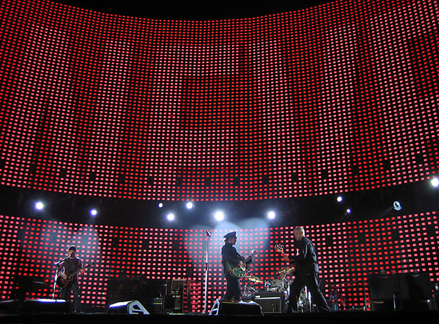 U2, Brussels, King Baudouin Stadium. Vertigo Tour Europe opening night (10. June 2005).